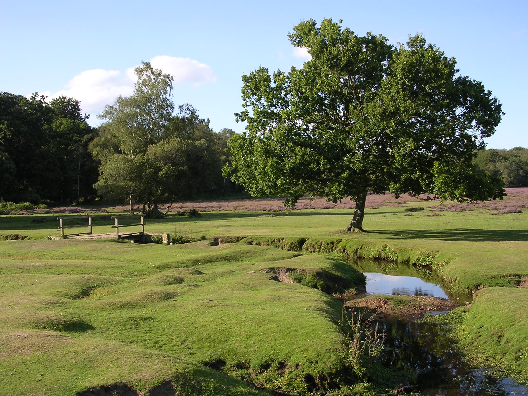 The Beaulieu River cuts through Longwater Lawn, about 4 km from its source near Lyndhurst.